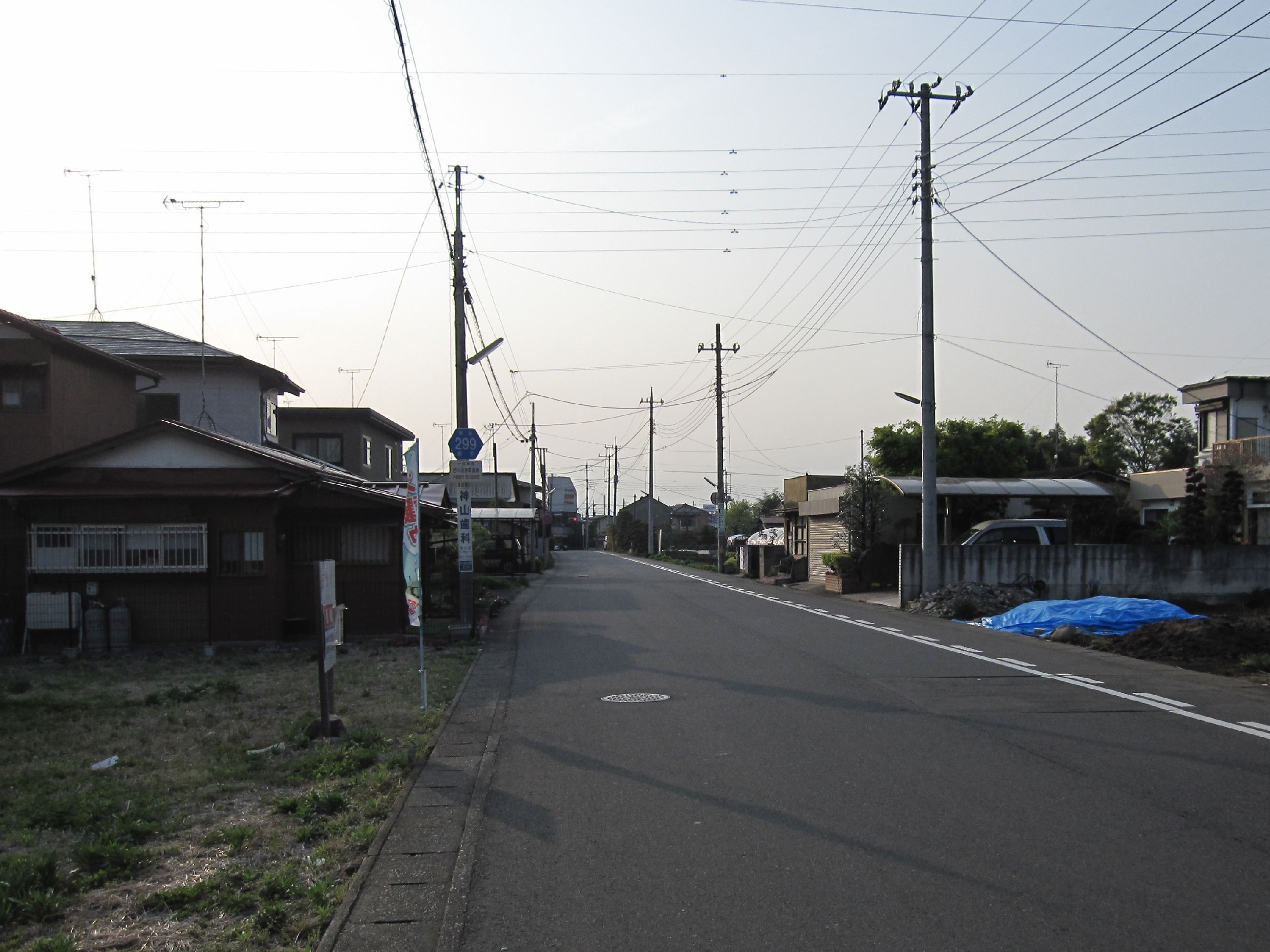 Tochigi prefectural road No.299 on Utsunomiya city